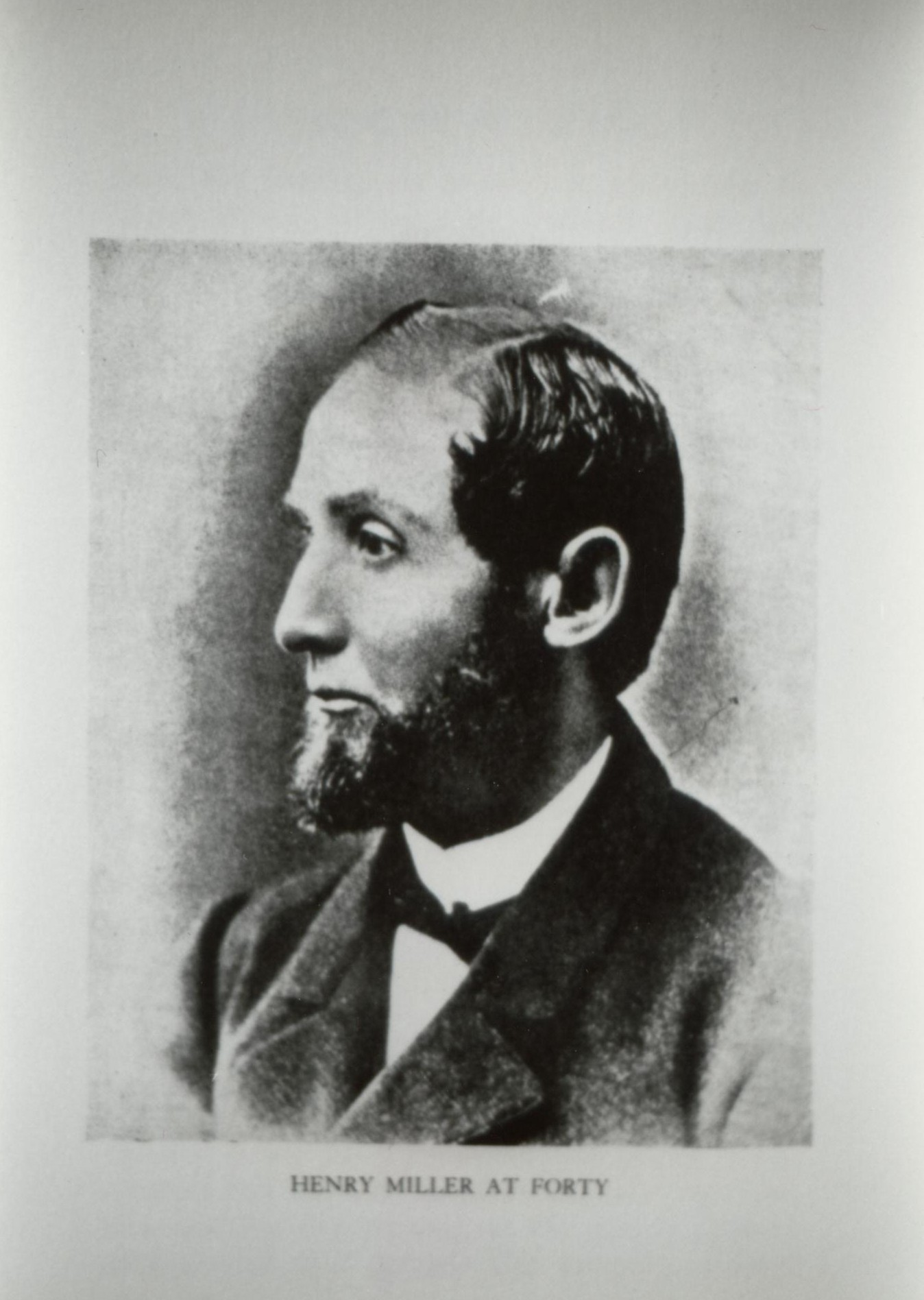 Henry Miller about 1867.